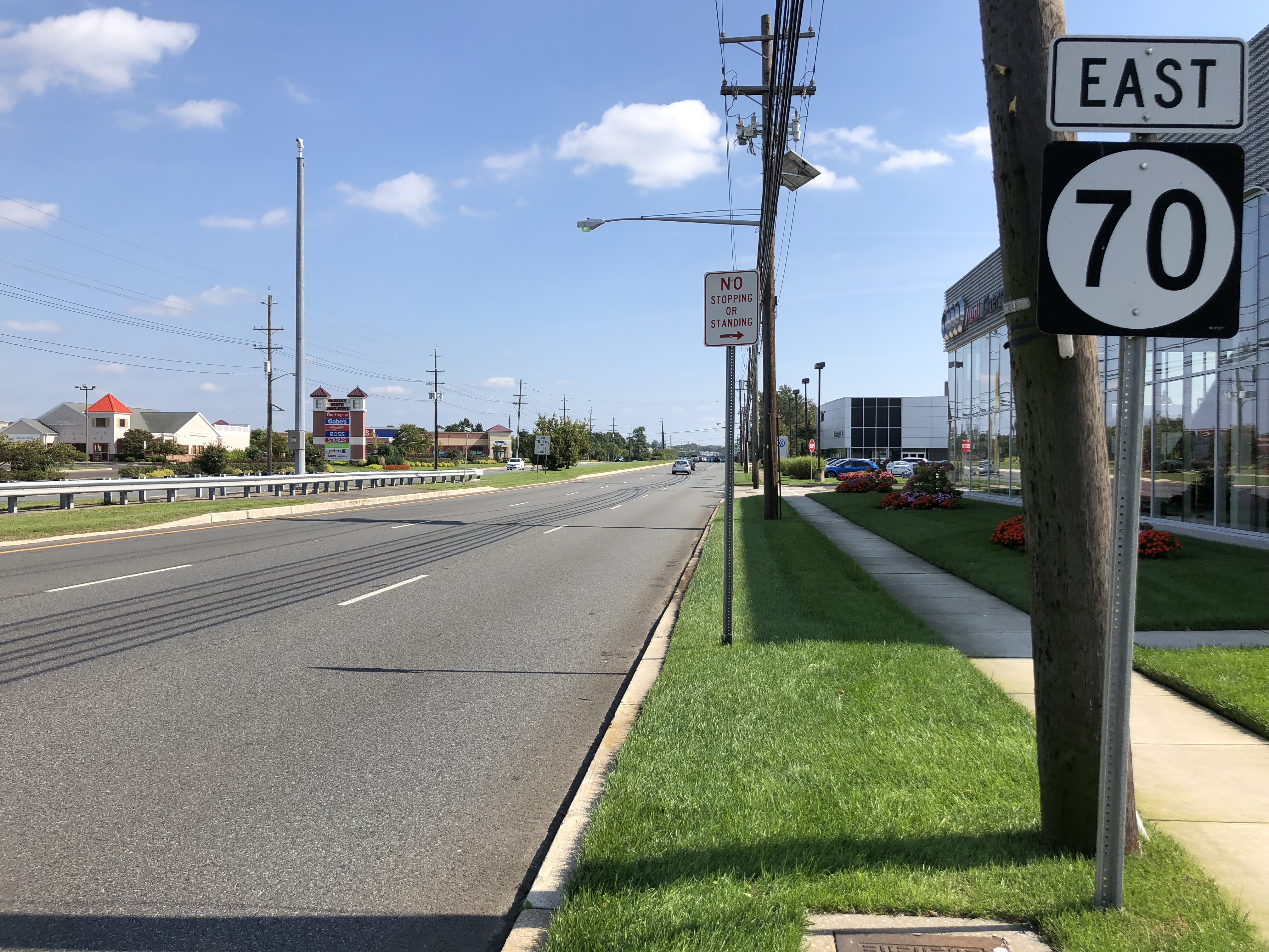 View east along New Jersey State Route 70 (Marlton Pike) at Cornell Avenue in Cherry Hill Township, Camden County, New Jersey